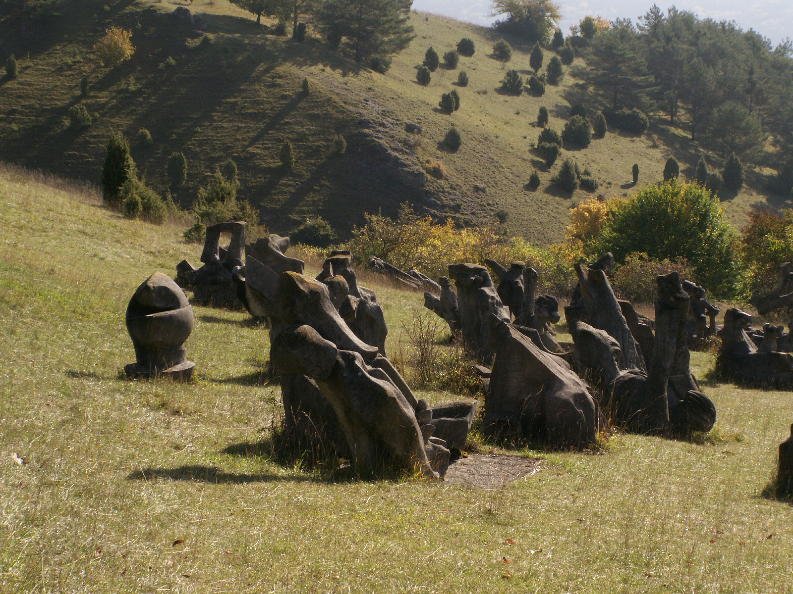 Alois Wünsche-Mitterecker, Field of Figures, - Memorial for Peace and Freedom – against War and Violence, Germany, Bavaria, Eichstätt/Hessental